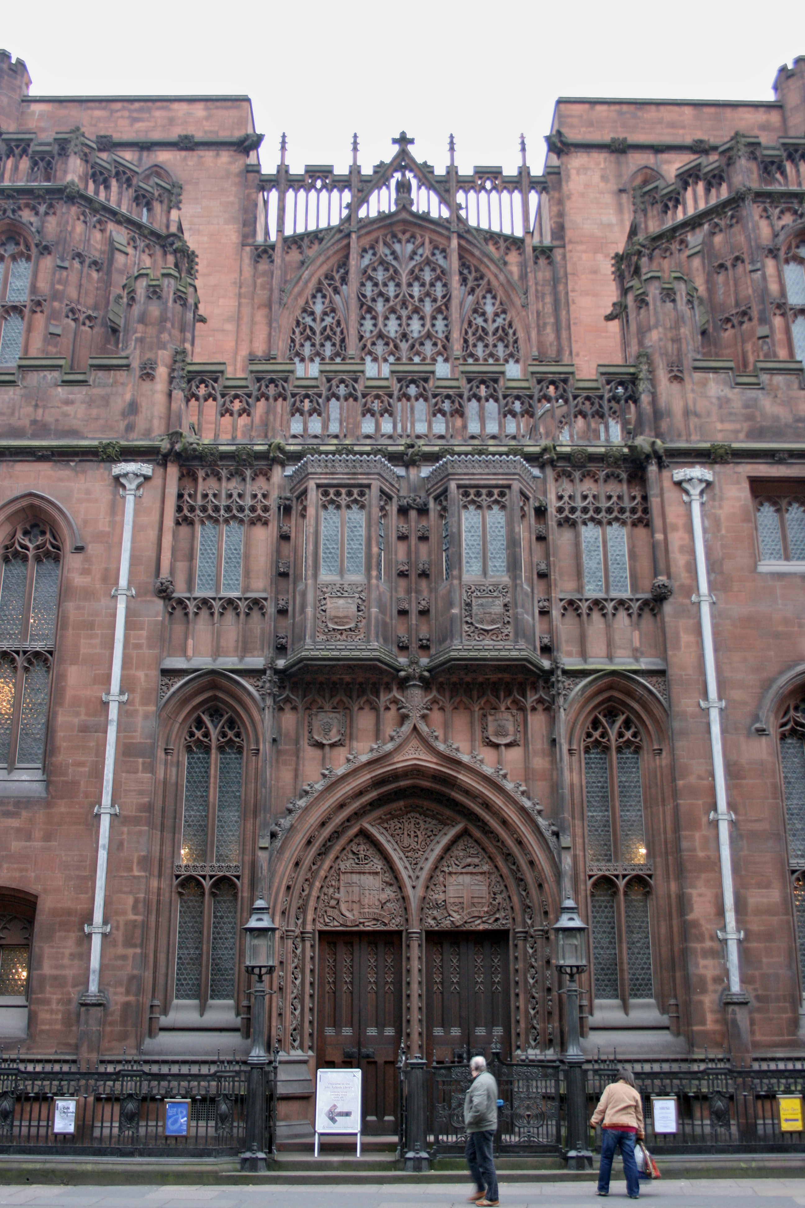 The front of the John Rylands Library, Manchester, England.